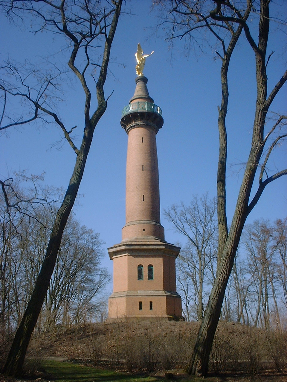 Memorial of the Battle of Fehrbellin, Hakenberg, Germany